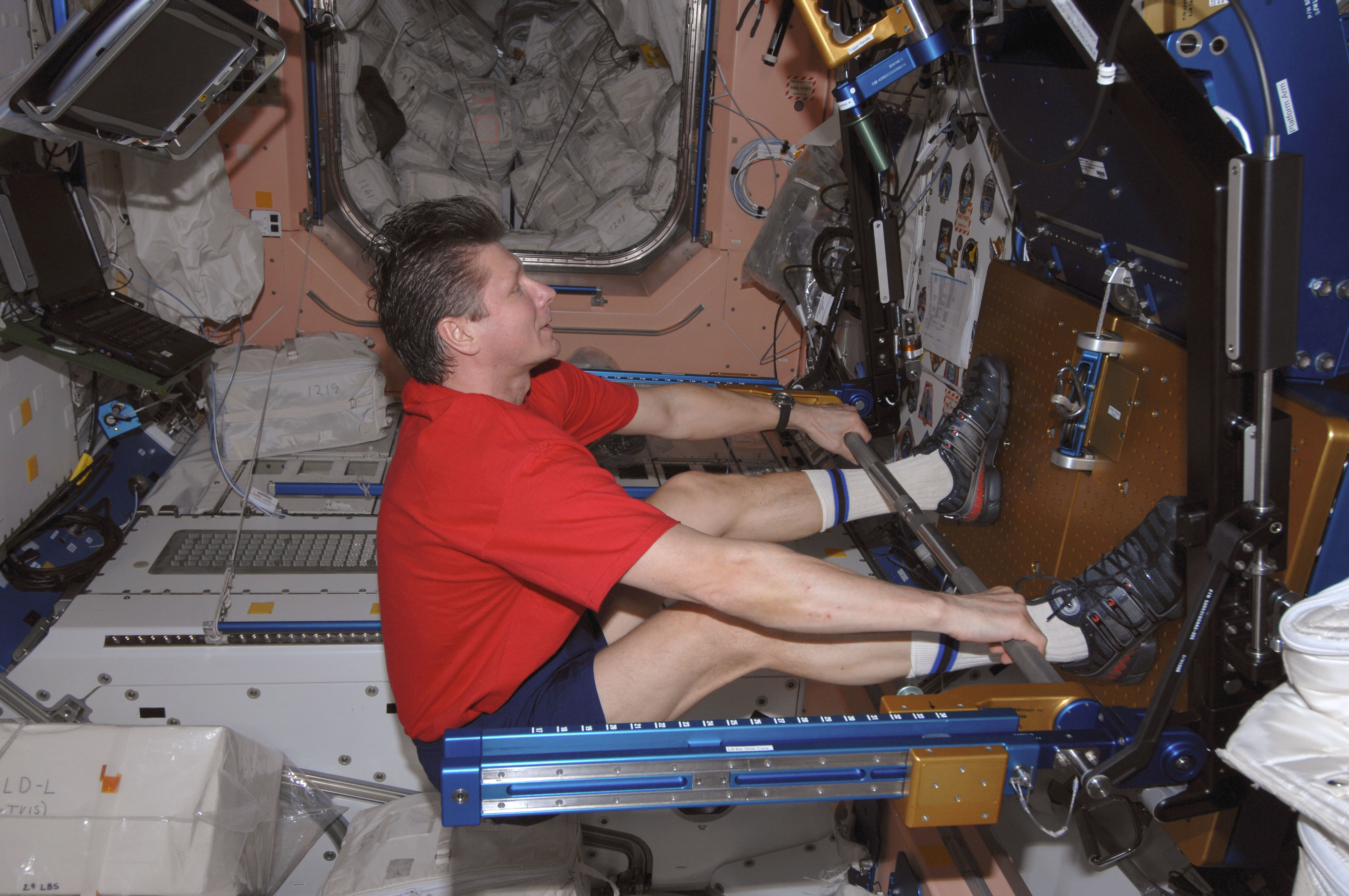 Cosmonaut Gennady Padalka, Expedition 19/20 commander, exercises using the advanced Resistive Exercise Device (aRED) in the Unity node of the International Space Station.